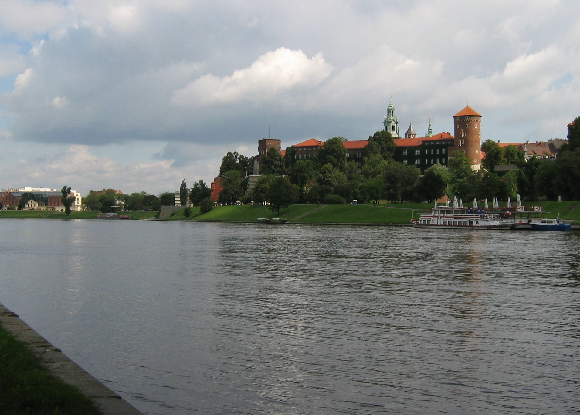 A view of the Wawel across the Wisła river in Kraków, Poland